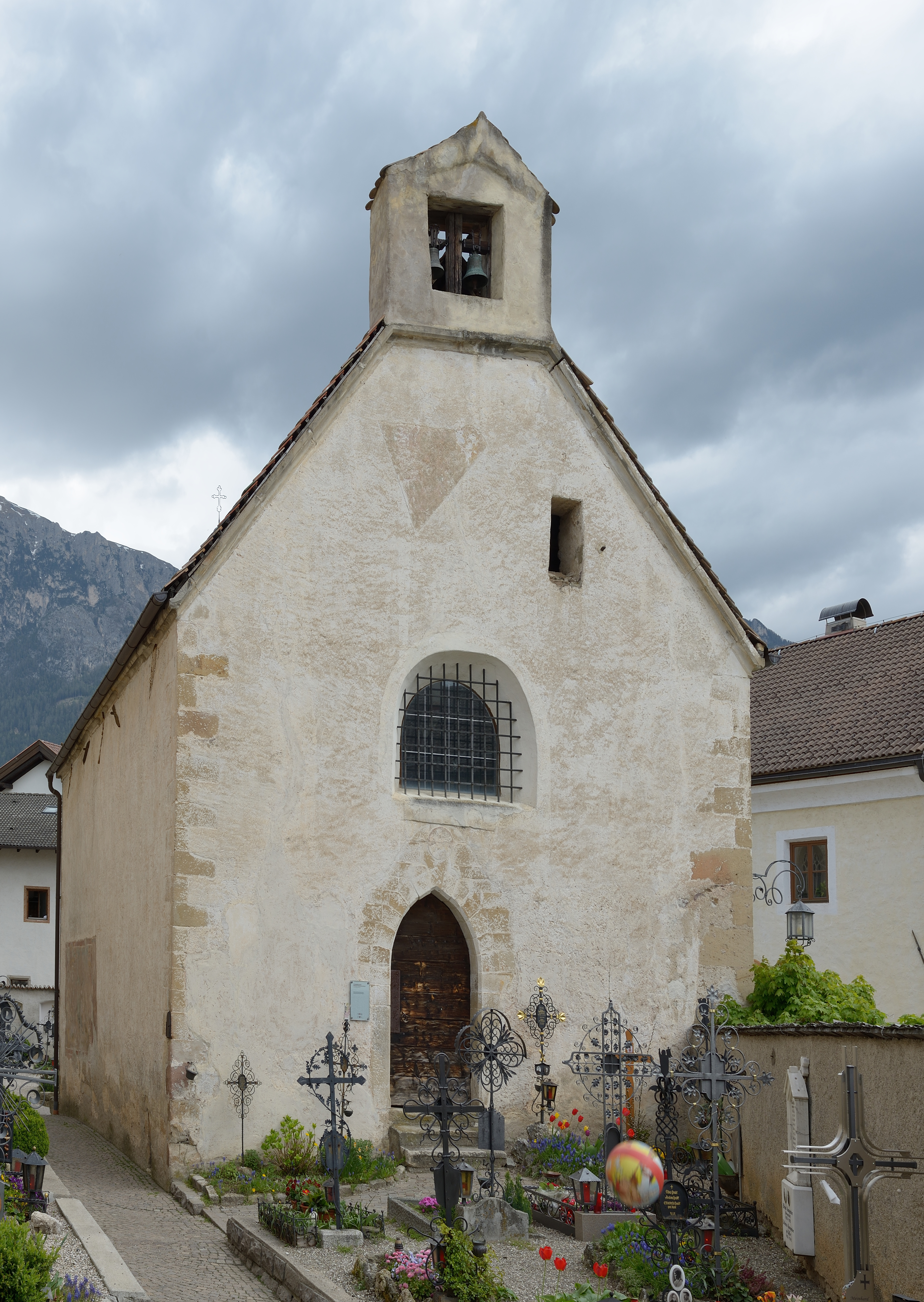 The Saint Michael chapel in Völs am Schlern.